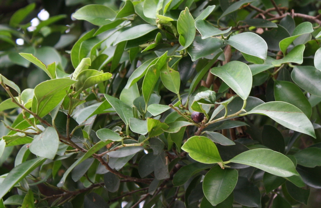 Ficus microcarpa foliage.